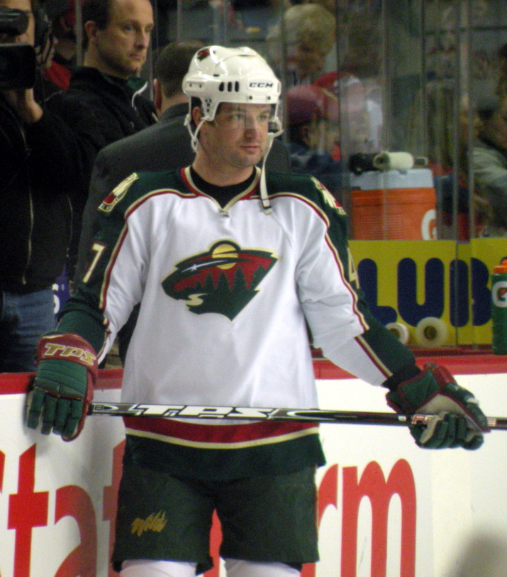 Minnesota Wild defenceman Marc-Andre Bergeron during warm-up prior to a National Hockey League game against the Calgary Flames in Calgary.